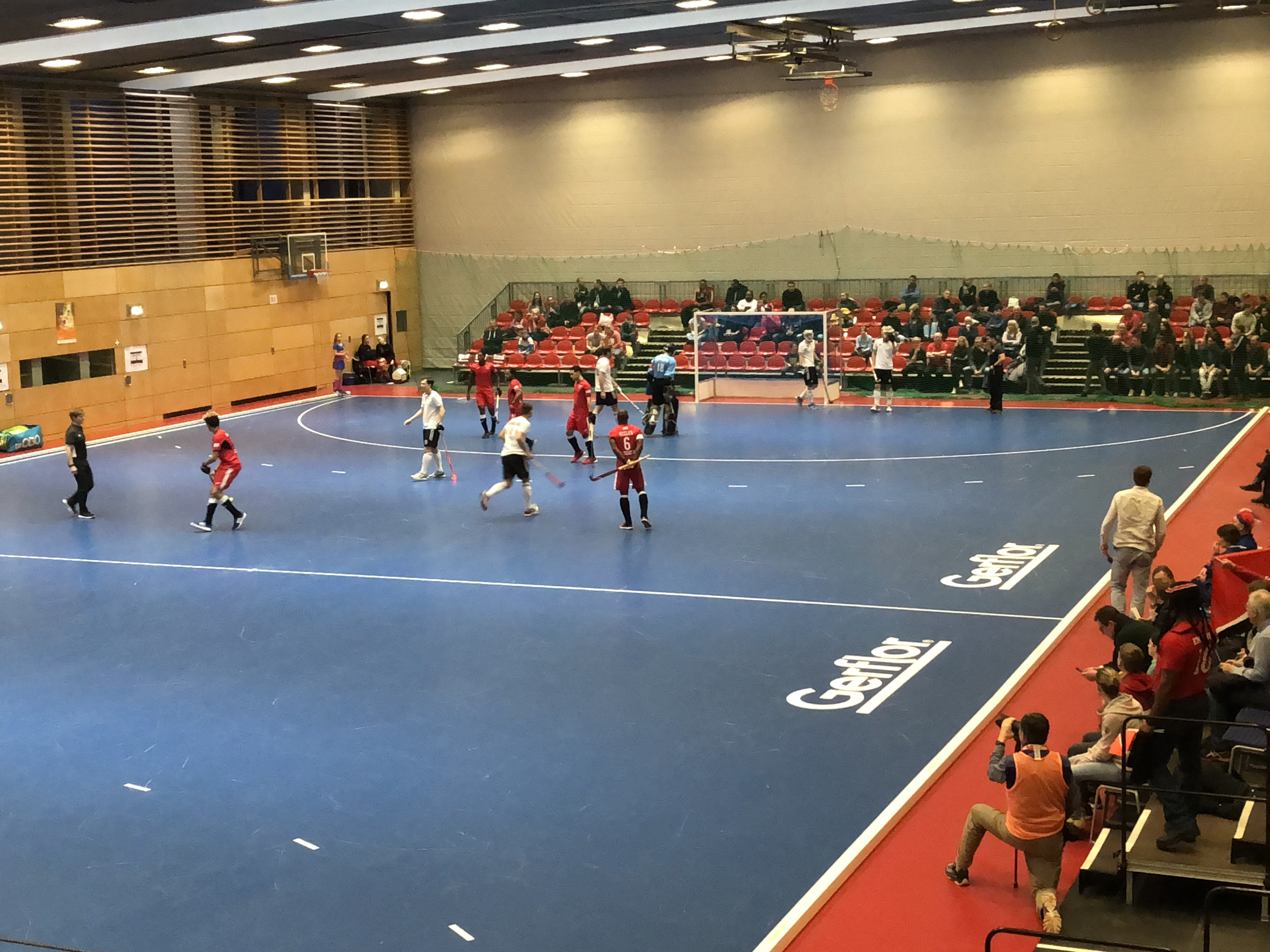 The 2018 Indoor Hockey World Cup was the fifth edition of this tournament and played from 7 to 11 February 2018 in Berlin, Max-Schmeling-Halle.